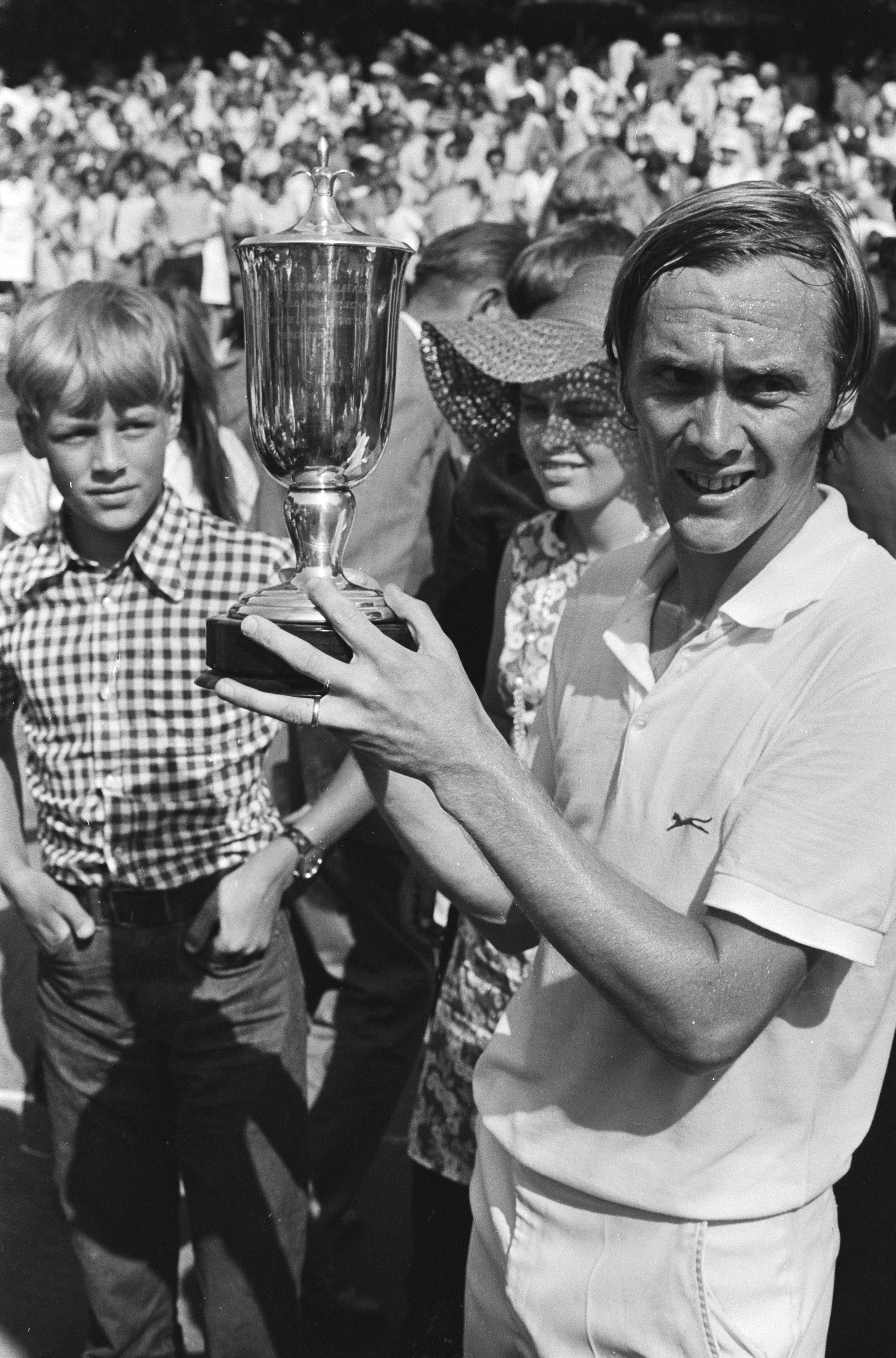 Welsh tennis player Gerald Battrick holding the trophy at the 1971 Dutch Open tournament in Hilversum.